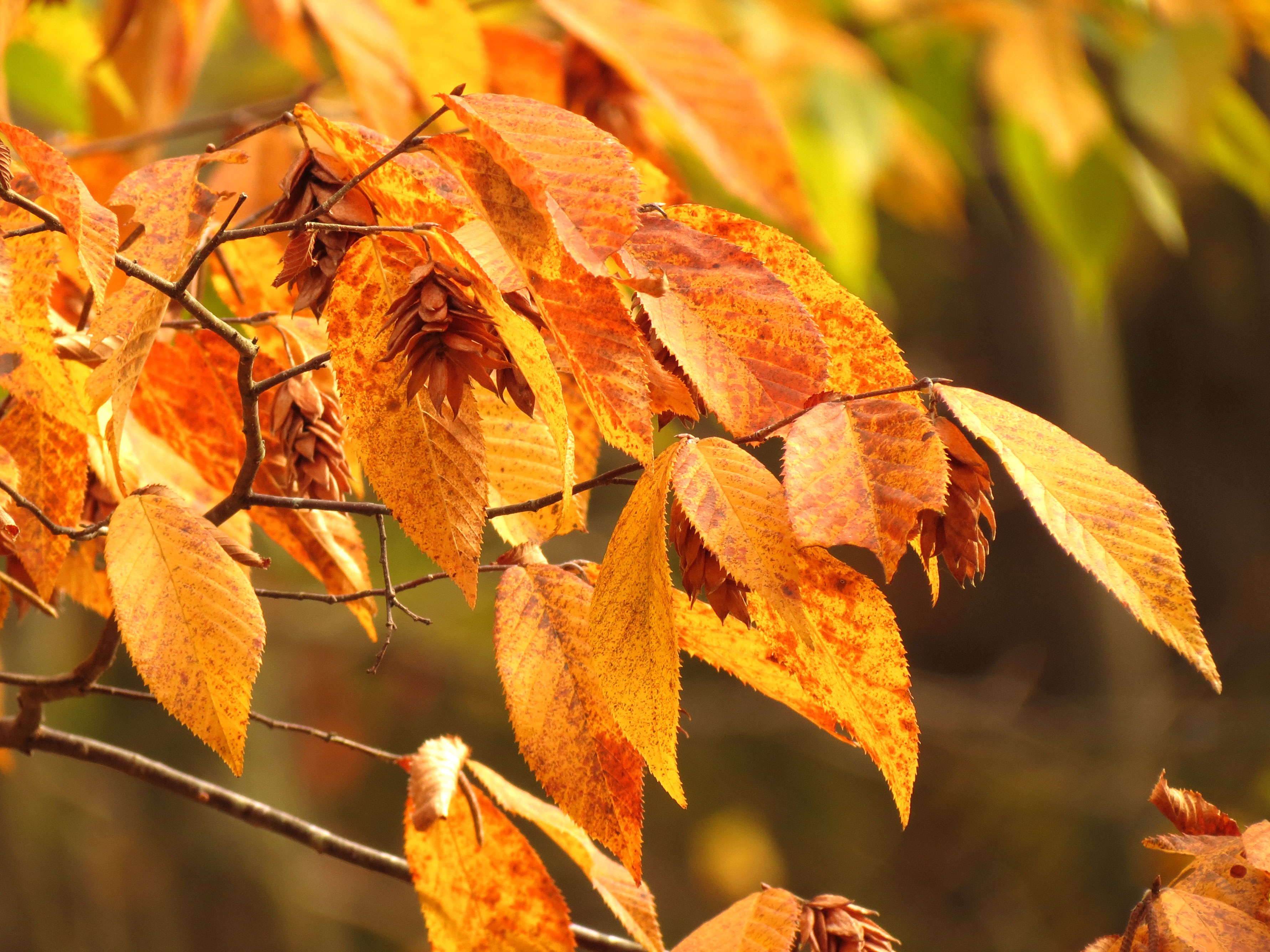 Ostrya virginiana. Rock Creek Park, Washington, DC, USA